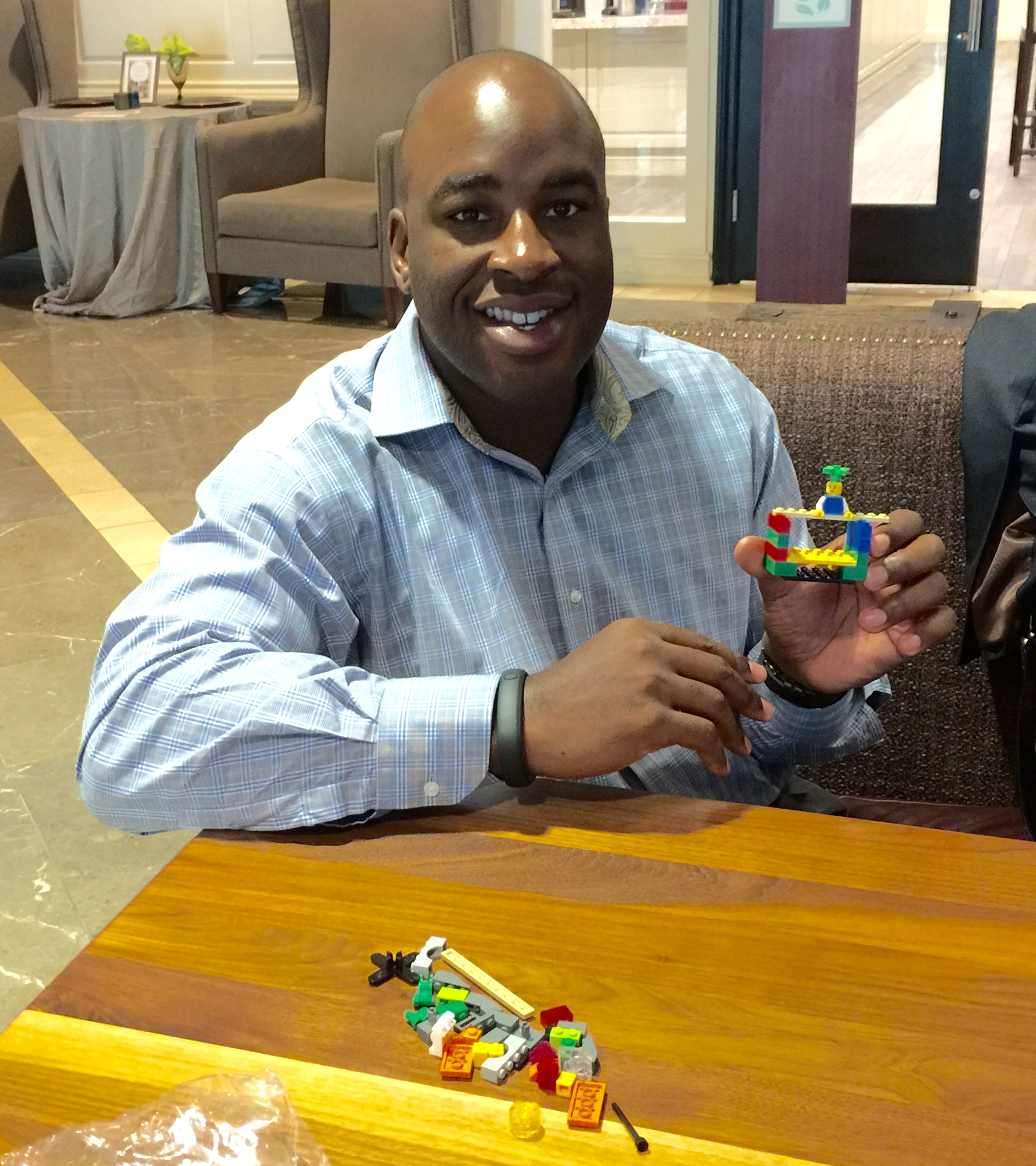 John Bronson using LEGO bricks to describe excellence